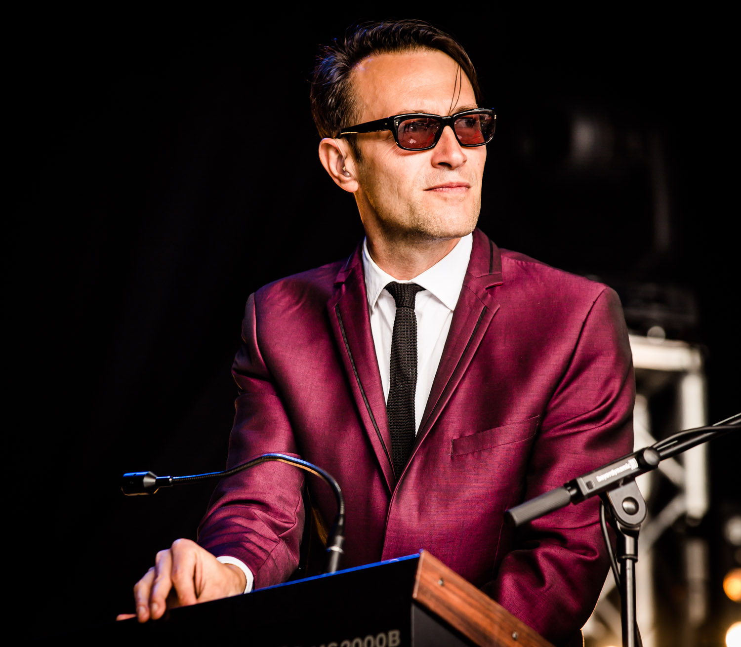 Steven Large: Keyboard Player for hugely successful British Band 'SQUEEZE'. Image captured by the copy-write holder (M.A. Bennett for ) at The Hop Farm Festival in Kent (UK) in July 2014 and released here under a Creative Commons Licence.